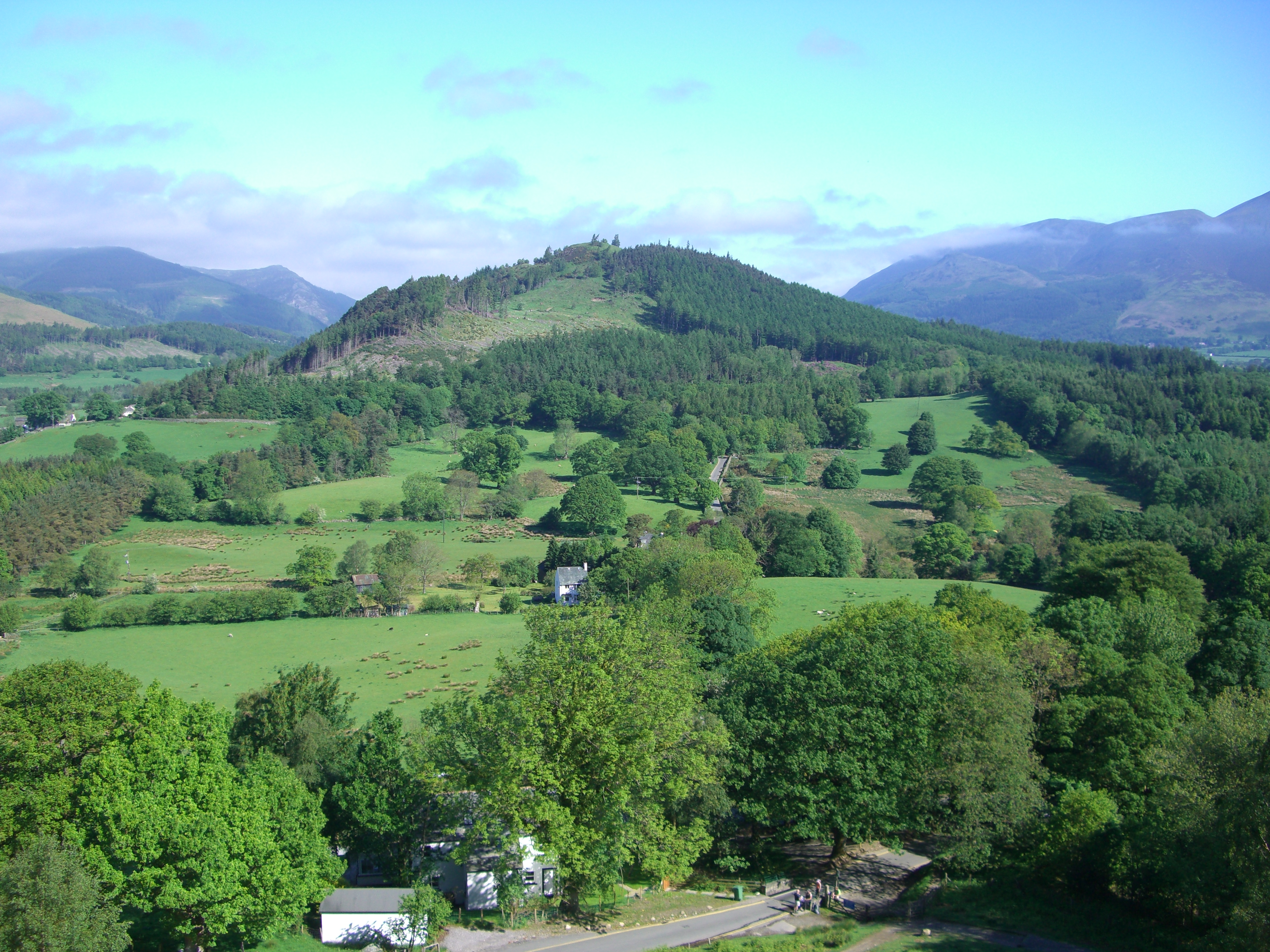 The small hill of Swinside in the Newlands Valley seen from the lower slopes of Cat Bells